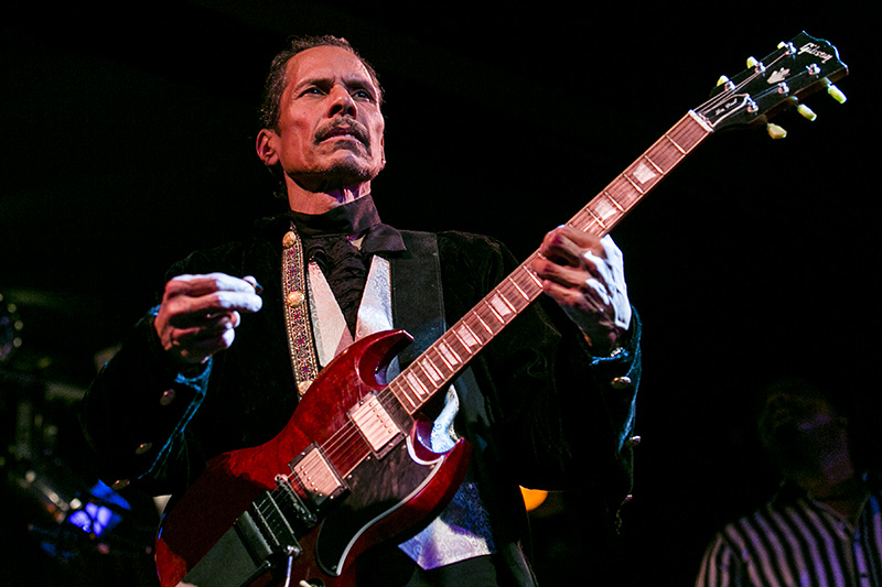 Shuggie Otis holding his Gibson guitar at B.B. King's in New York City April 18 2013 by Sachyn Mital